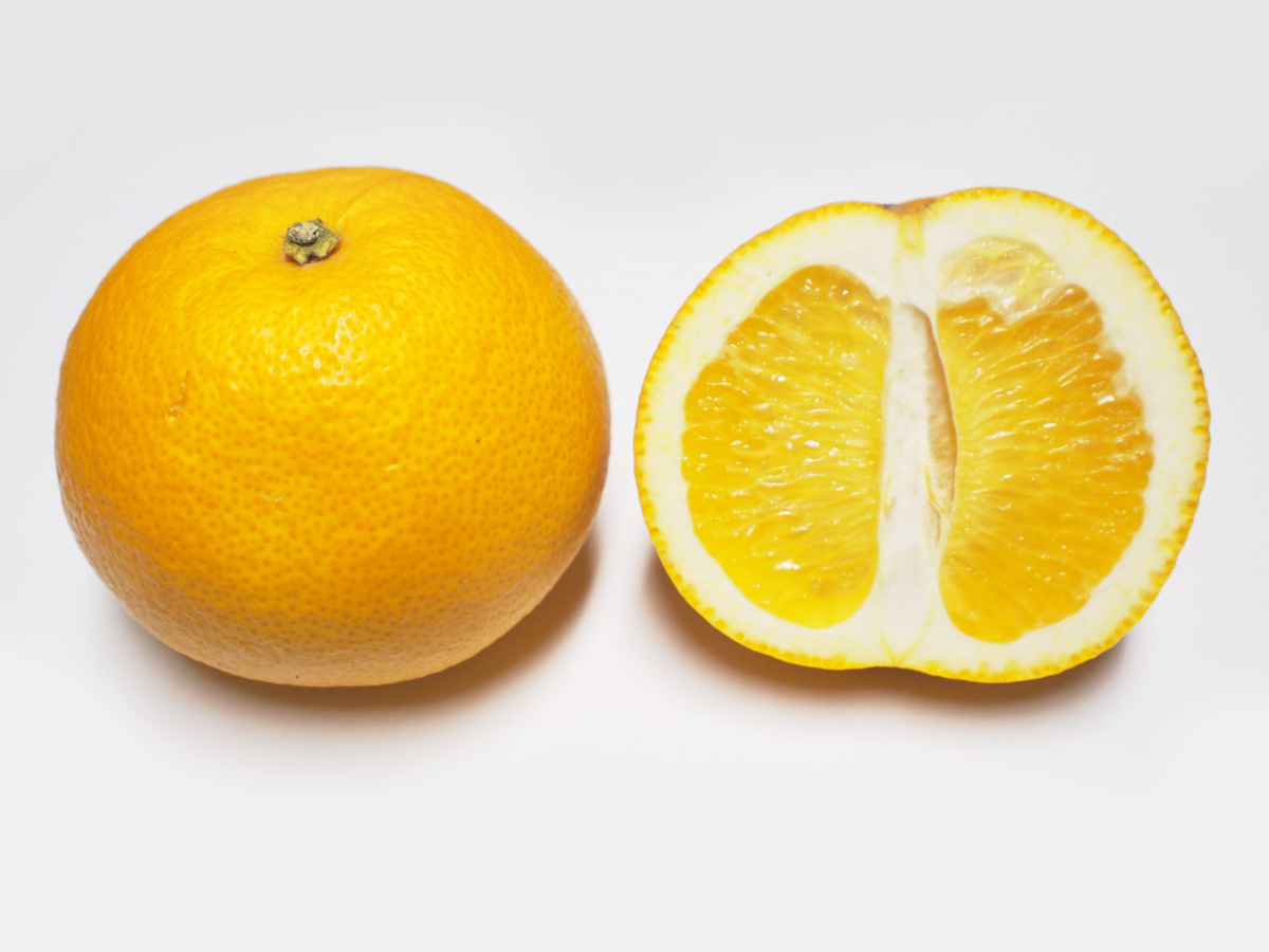 Hassaku fruit and cross section.